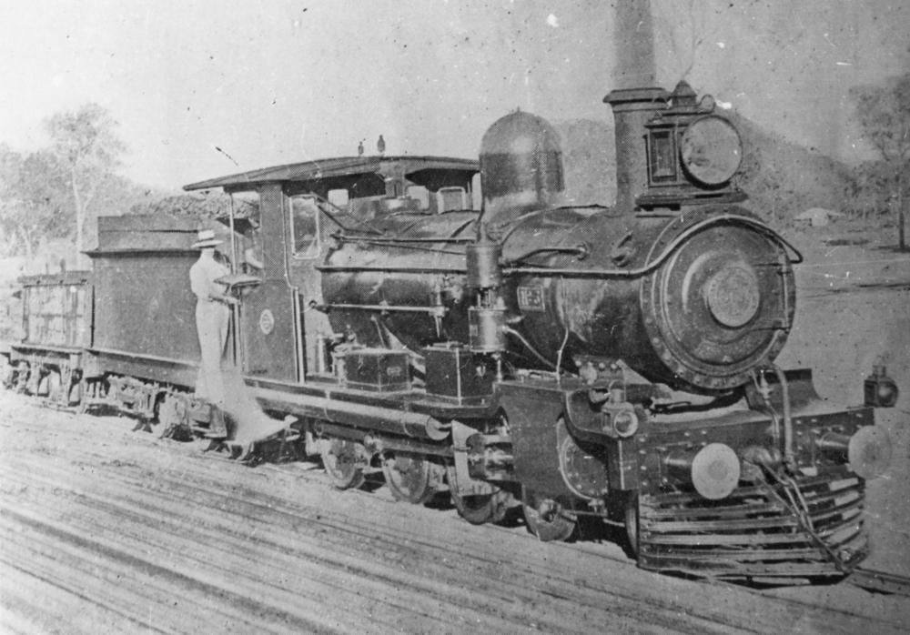 Locomotive no. 3 of the Chillagoe Railway was the first engine on the Etheridge line Lomomotive no. 3 of the Chillagoe Railway was built by Walkers Ltd in 1899 and was the first engine on the Etheridge Line. It is here shown while being used on the construction of the Etheridge Line for the Chillagoe Co. The line with this locomotive and others was taken over by Queensland Government Rail and it started work on the Cairns Railway on 19 July 1919, retaining the number 3. (Description supplied with photograph).